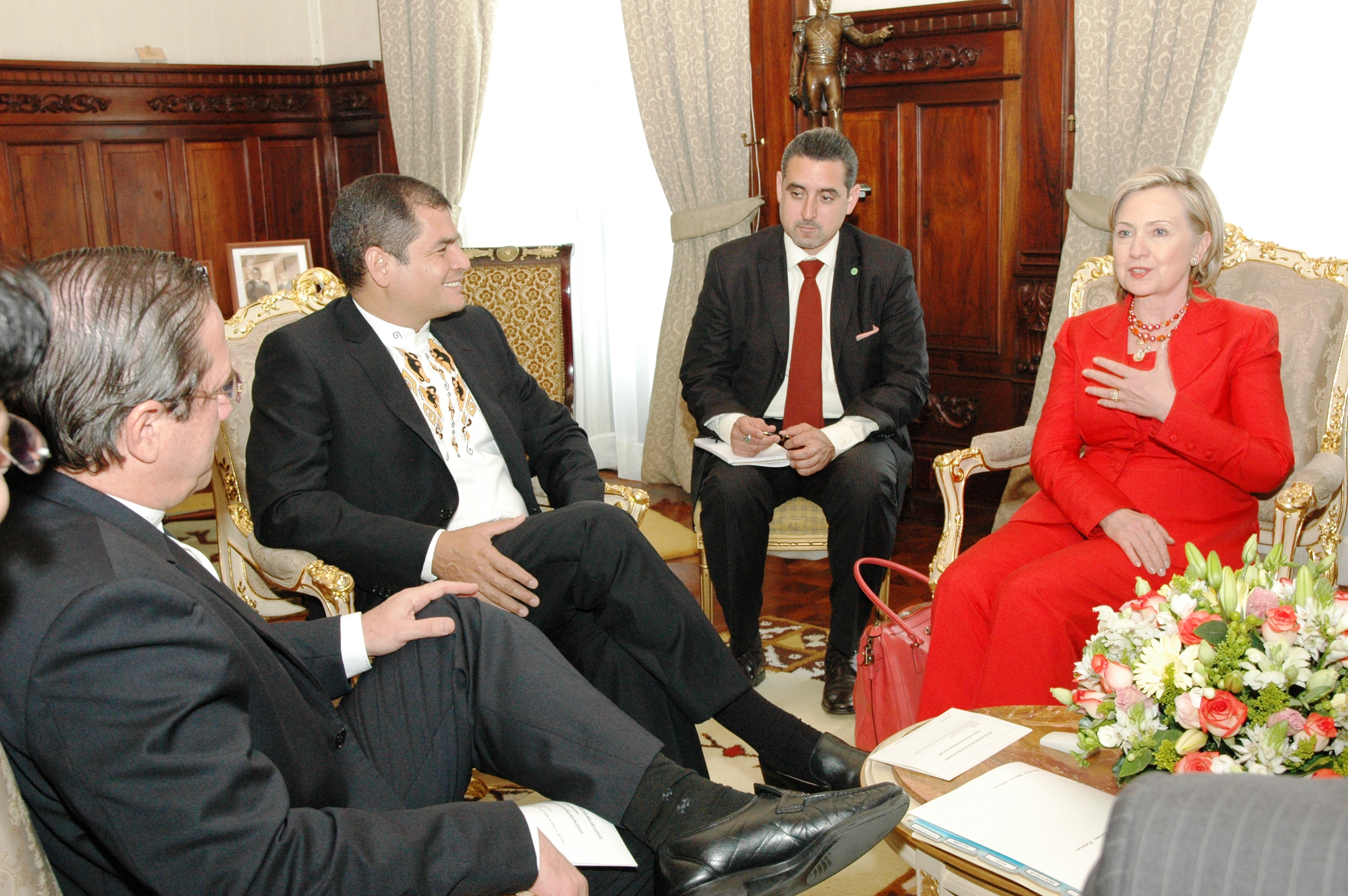 Ecuadorian President Rafael Correa holds a bilateral meeting with U.S. Secretary of State Hillary Rodham Clinton during their bilateral meeting in Quito, Ecuador, on June 8, 2010. [State Department photo/ Public Domain]